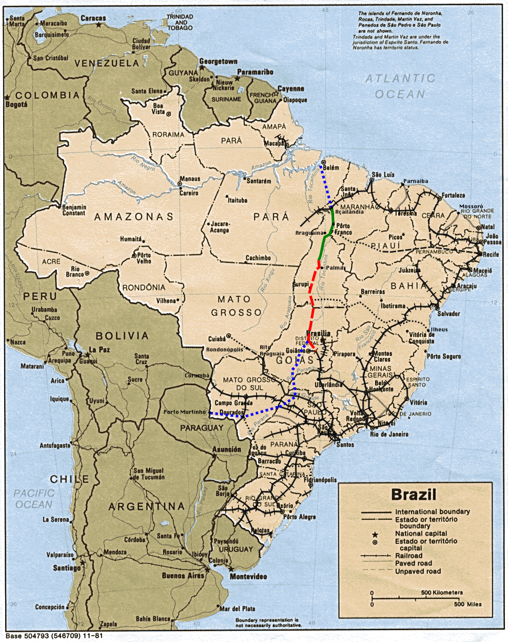 Political map of Brasil